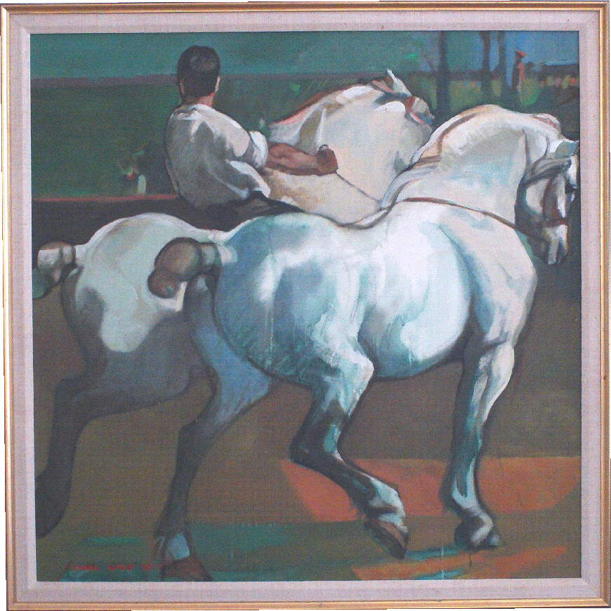 Photo of a painting